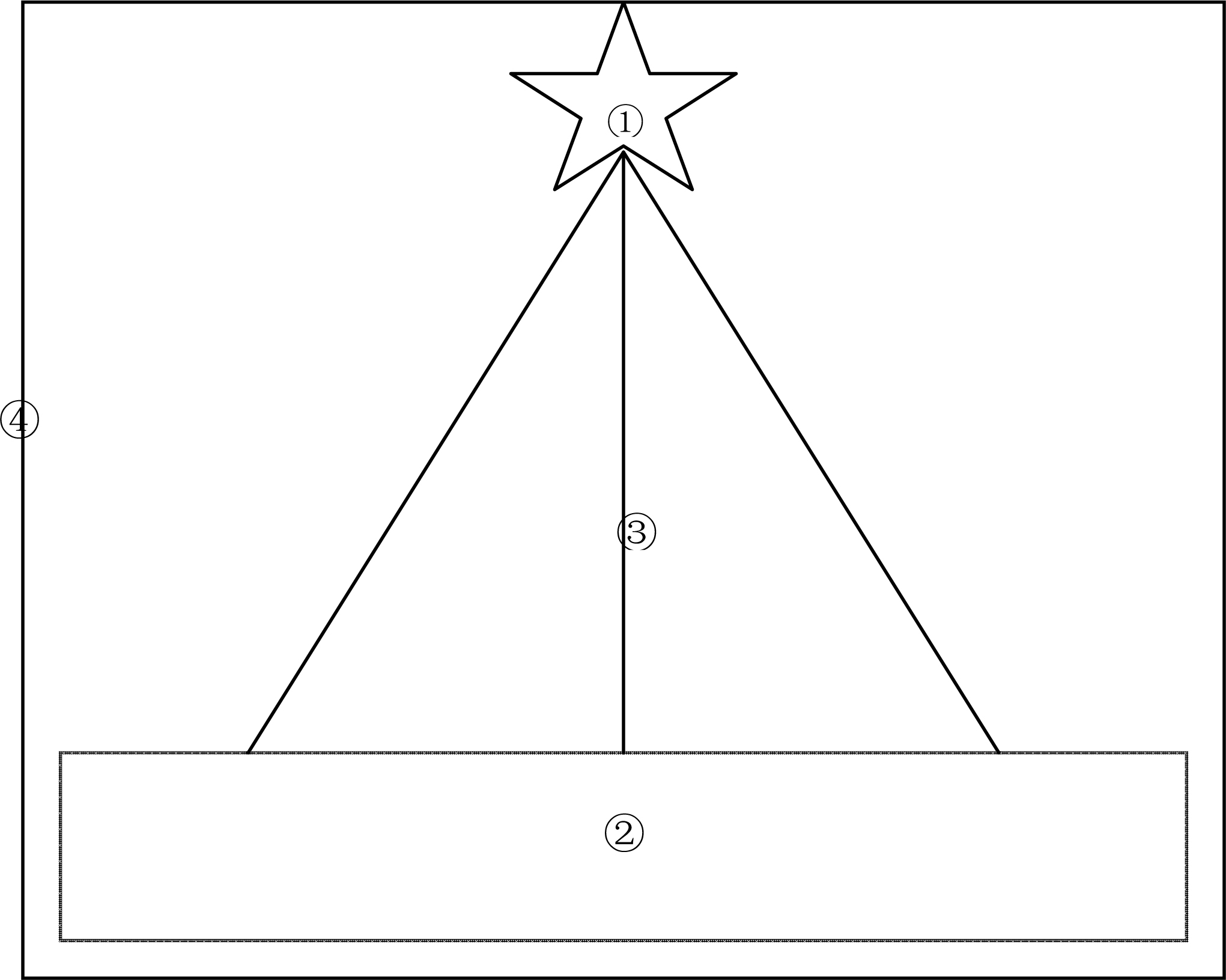 The structure of constitutionalism, the branch of politics.